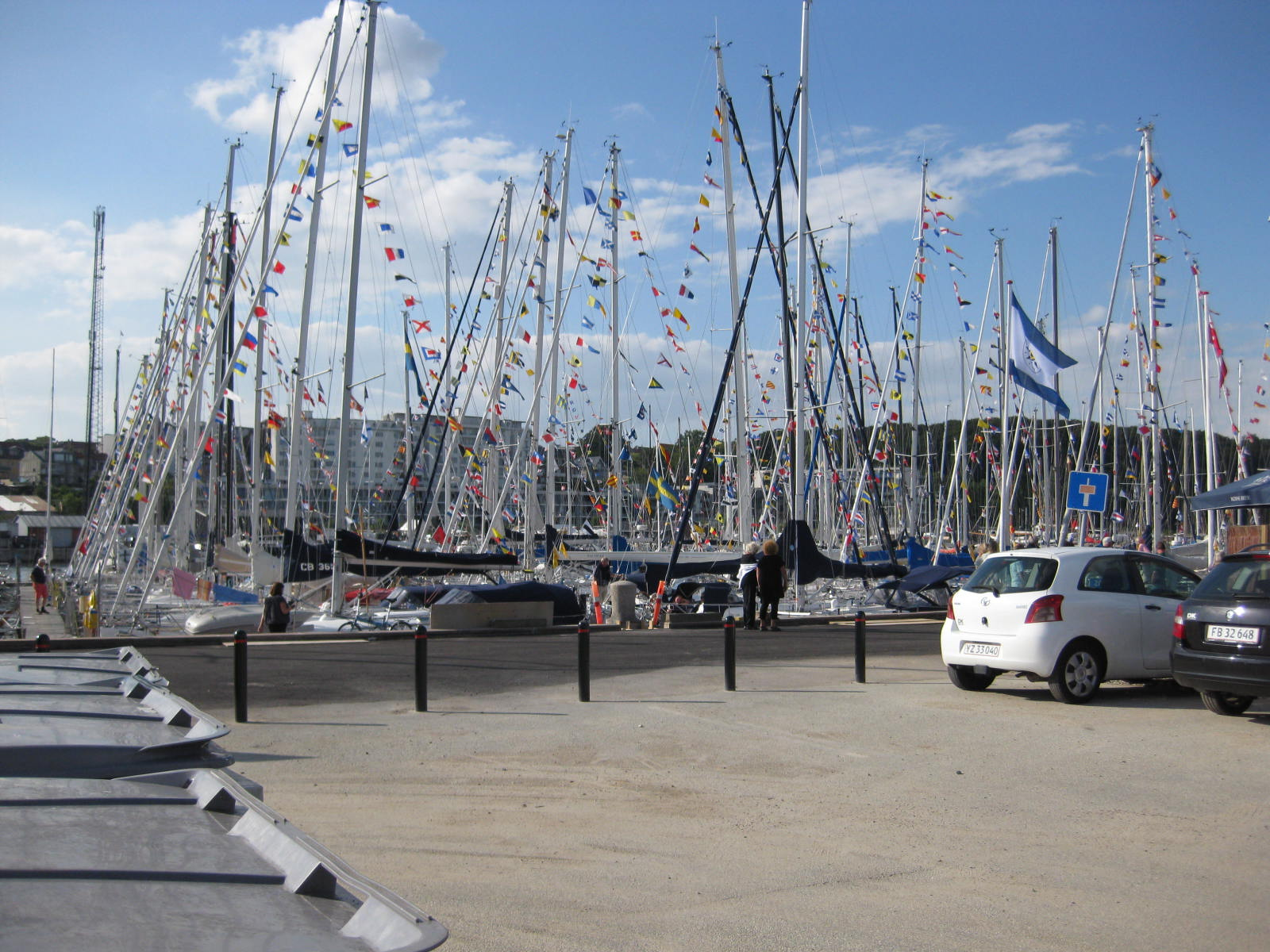 Aarhus Lystbådehavn/Marina